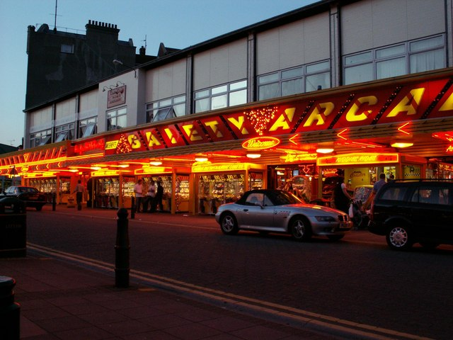 Amusement arcade at Clacton-on-Sea, Essex. These amusements, known as Gaiety Arcade, are in Pier Avenue.